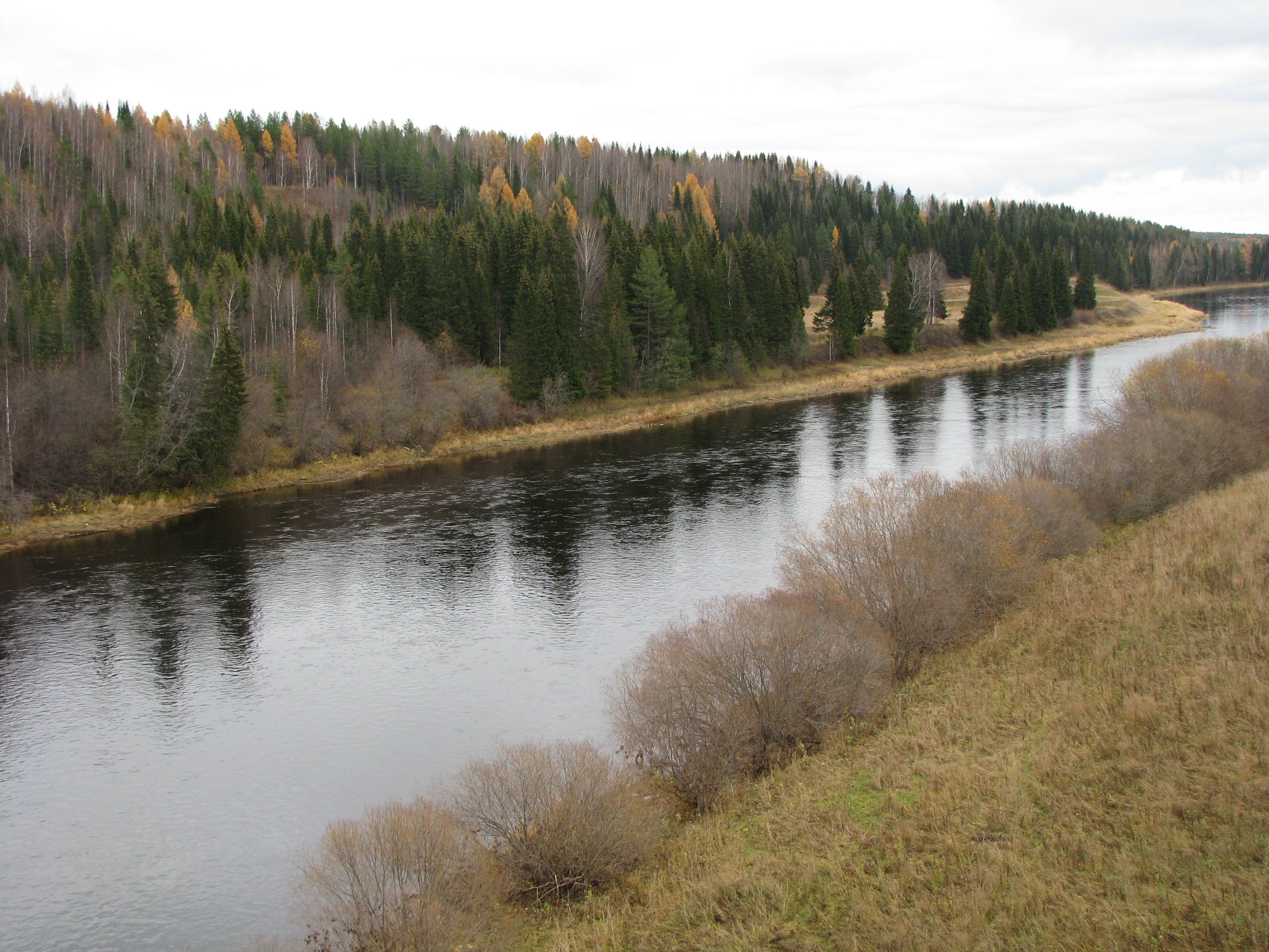 The Ukhta River, Republic of Komi, Russia. View from the road Ukhta-Sosnogorsk